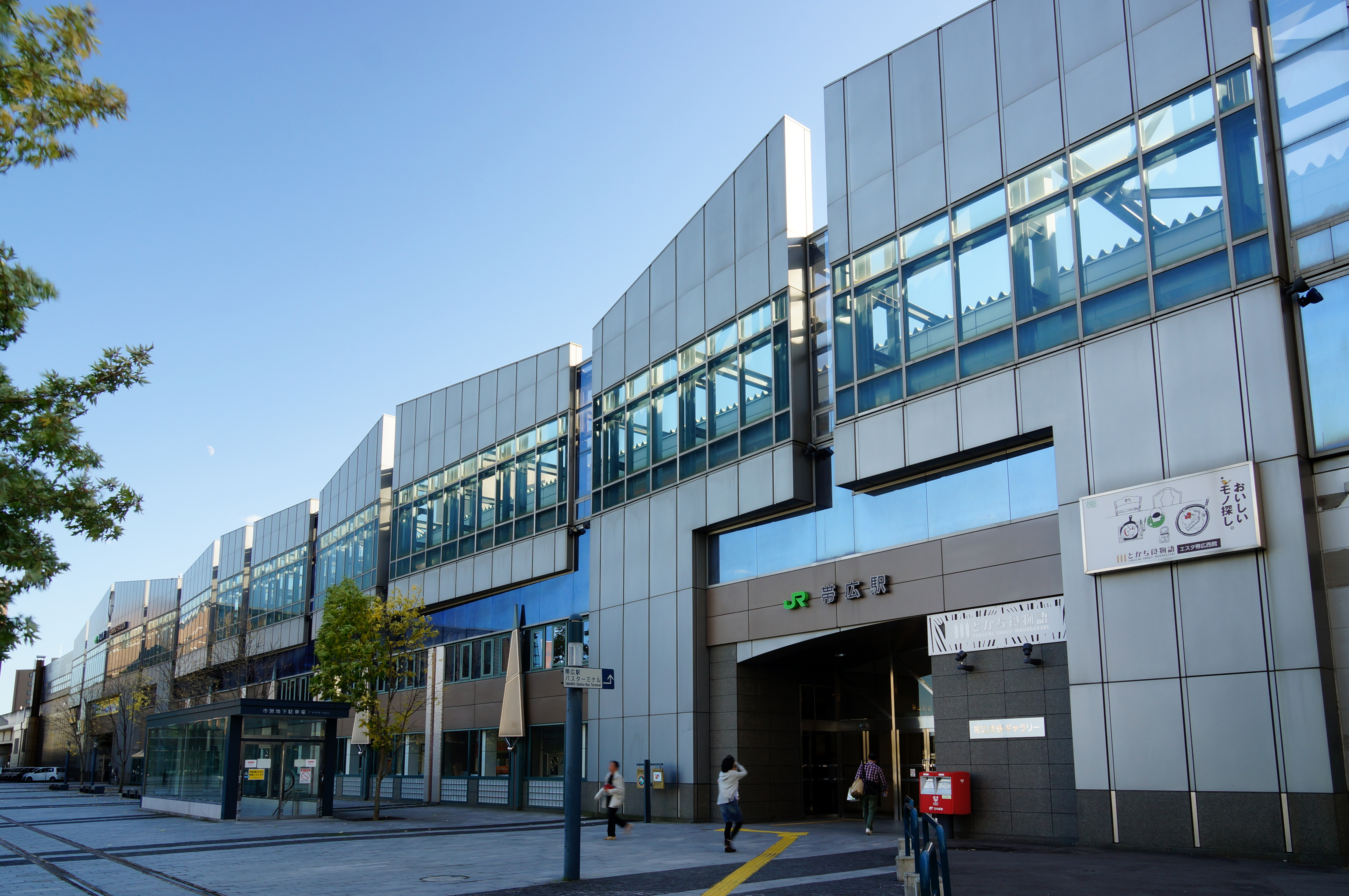 Obihiro Station in Obihiro, Hokkaido prefecture, Japan.